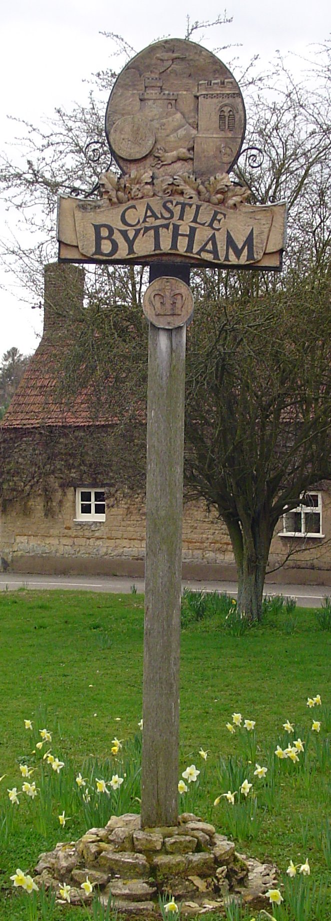 Signpost in Castle Bytham